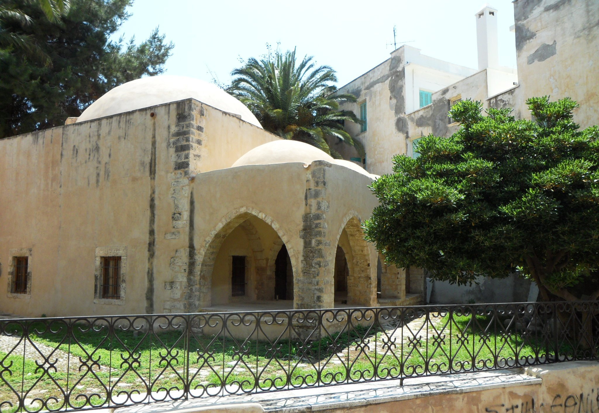 Kara Mustafa Pasha mosque, Rethymno, Greece